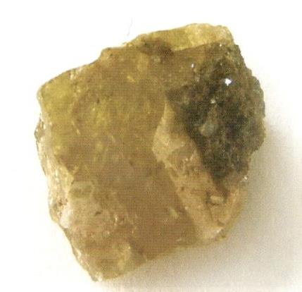 Titanite mineral ore from Dunje deposit in Macedonia